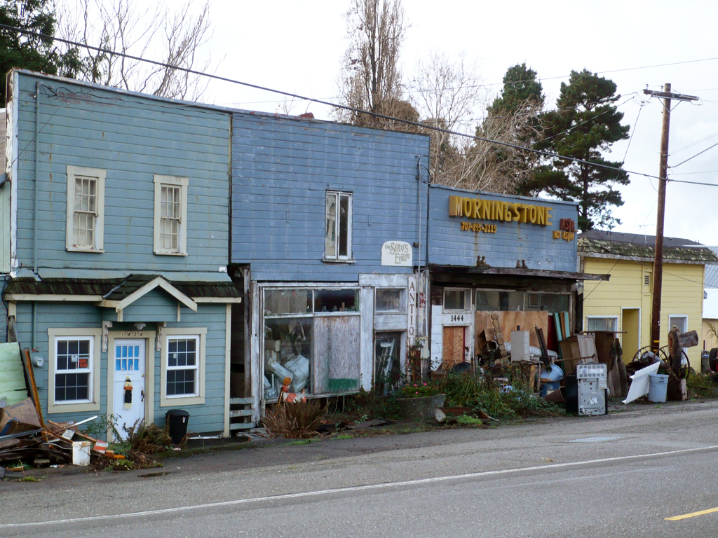 Rohnerville's old downtown is now part of Fortuna, California.